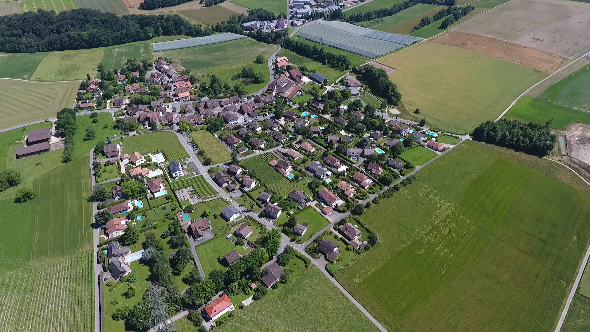 Romanel-sur-Morges (Switzerland)